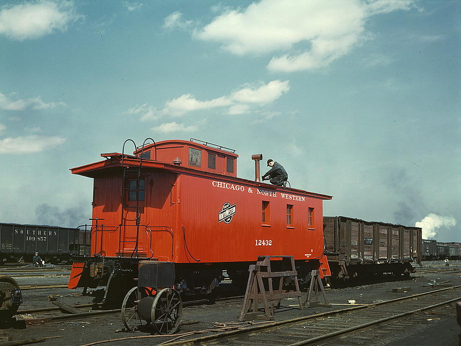 C & NW RR, putting the finishing touches on a rebuilt caboose at the rip tracks at Proviso yard, Chicago, Ill.